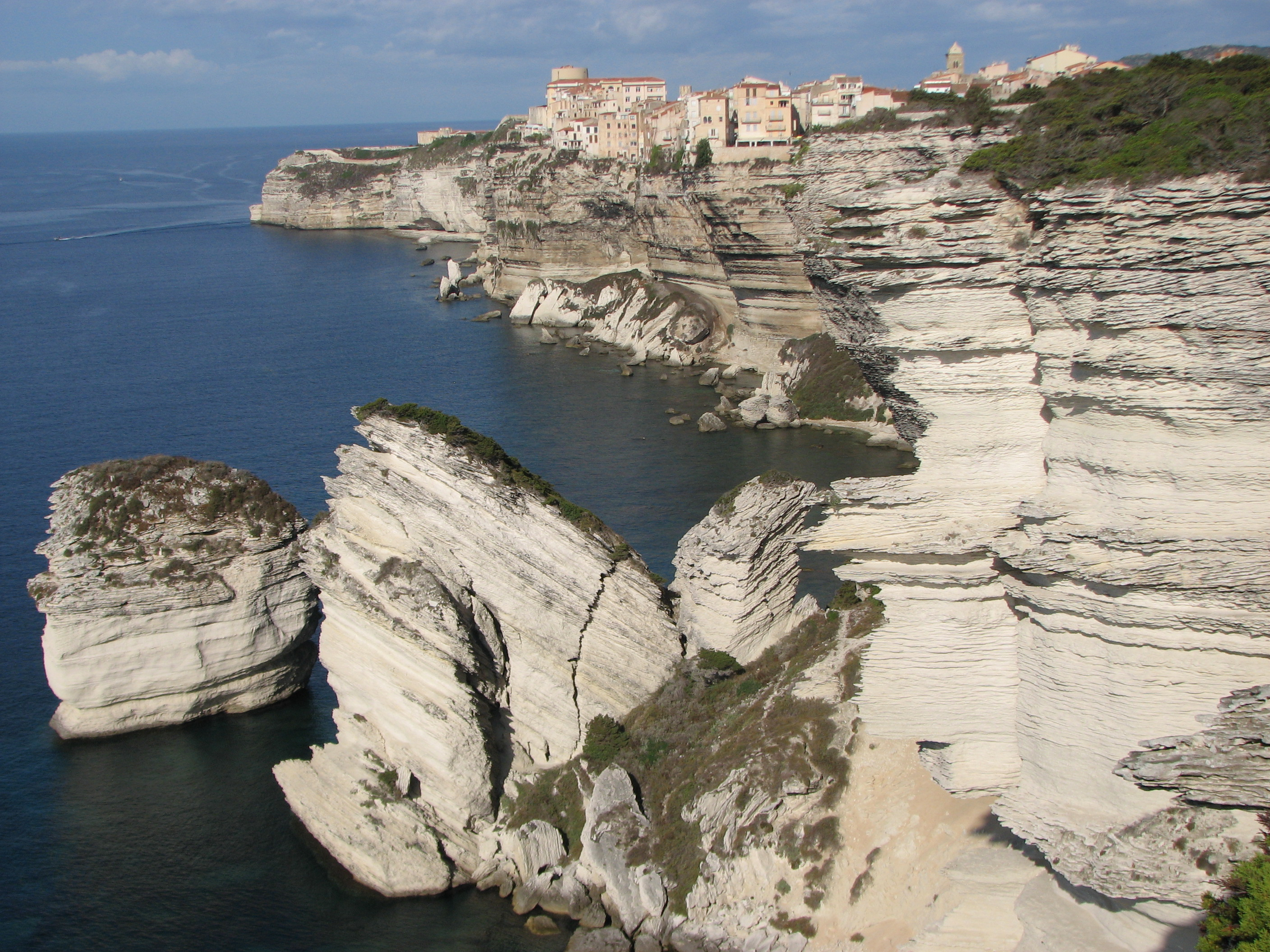 Bonifacio, Corsica, France